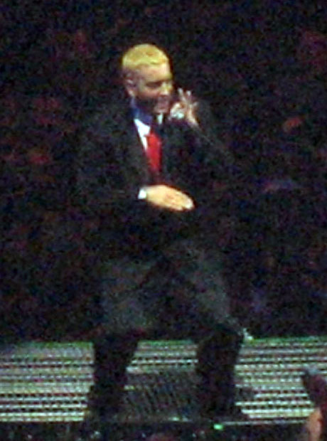 Eminem on Stage, during the 'Anger Management' tour on 08-08-2005 in NYC.